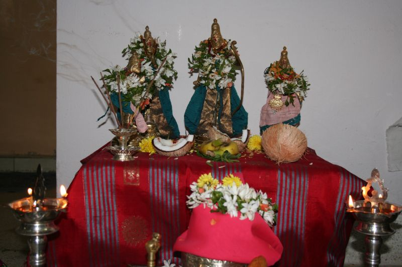 Celebrating Sri Rama navami in 2007. Rama, Sita and Lakshmana idols on a table. Offerings of coconut and flowers in front. Burning oil lamps on either side.27032007/3